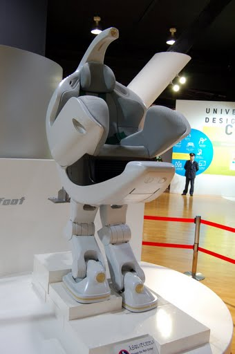 The Toyota i-Foot personal mobility robot.